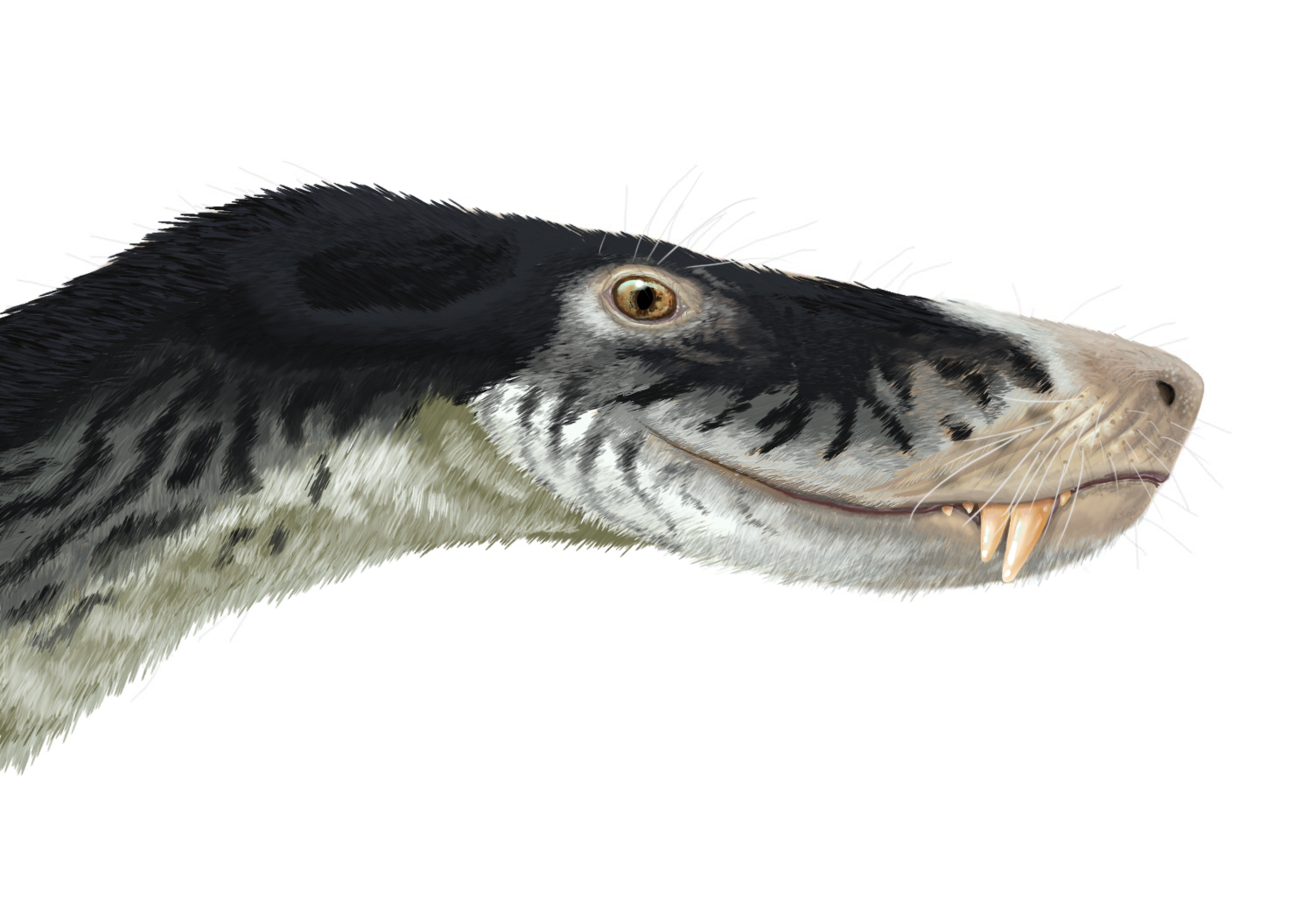 Life restoration of Ictidosuchoides sp.